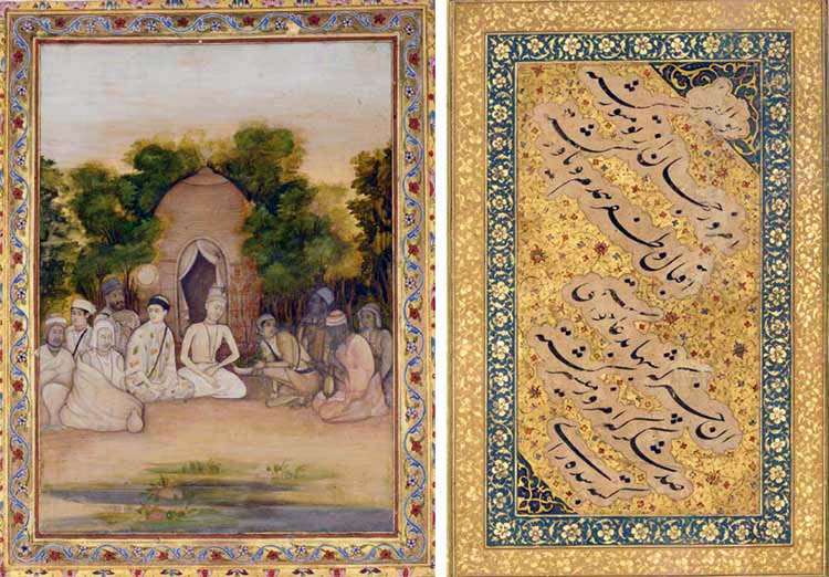 Raidas and Ravidas, Matsyendranath and Gorakhnath, a Mughal miniature, c.1740-50 (downloaded Apr. 1004) "A GROUP OF HINDU SAINTS, INSCRIBED MIR-I MIRAN, (WORK OF THE MIR OF MIRS), MUGHAL INDIA, CIRCA 1740-50. Gouache heightened with gold on paper, inscribed in black nasta'liq, illuminated margins with bold flowering tendrils, verso with six lines of fine black nasta'liq, margins trimmed -- Miniature 27.2 x 19.5cm. Calligraphy 17.5 x 9.5cm. Lot Notes: This picture is probably by Mir Kalan Khan as it is rare for a Mughal artist to have the title Mir. In view of the fact this painting is in the style of Mir Kalan Khan it is probable that he adopted this unusual way of signing his work. The composition of this picture is derived from the lower part of a well known 17th c. picture in the Victoria and Albert Museum depicting followers of Khwaja Mu'inuddin Chishti performing sama' at Ajmer. Most of the figures are directly copied from the row of saints at the bottom of the V&A picture; at the left in the front row are Raidas and Ravidas, the two Kanphata yogis on the right are Matsyendranath and Gorakhnath. The V&A picture is illustrated and discussed by Elinor W. Gadon, in Dara Shikuh's Mystical Vision of Hindu-Muslim Synthesis, Facets of Indian Art, V&A, 1986, pp. 153-7."